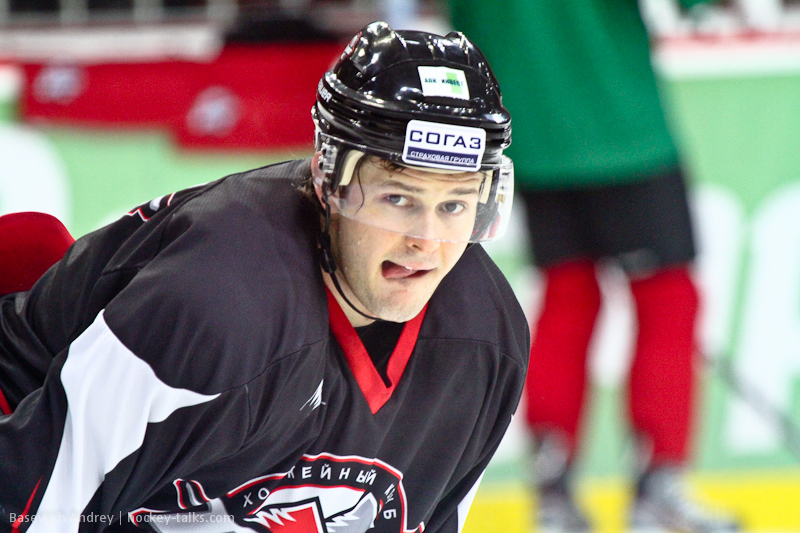 Eugeny Dadonov in form of HC Donbass